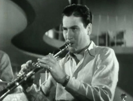 Movie screenshot of Artie Shaw playing clarinet in his "Concerto for Clarinet" from Second Chorusin 1940